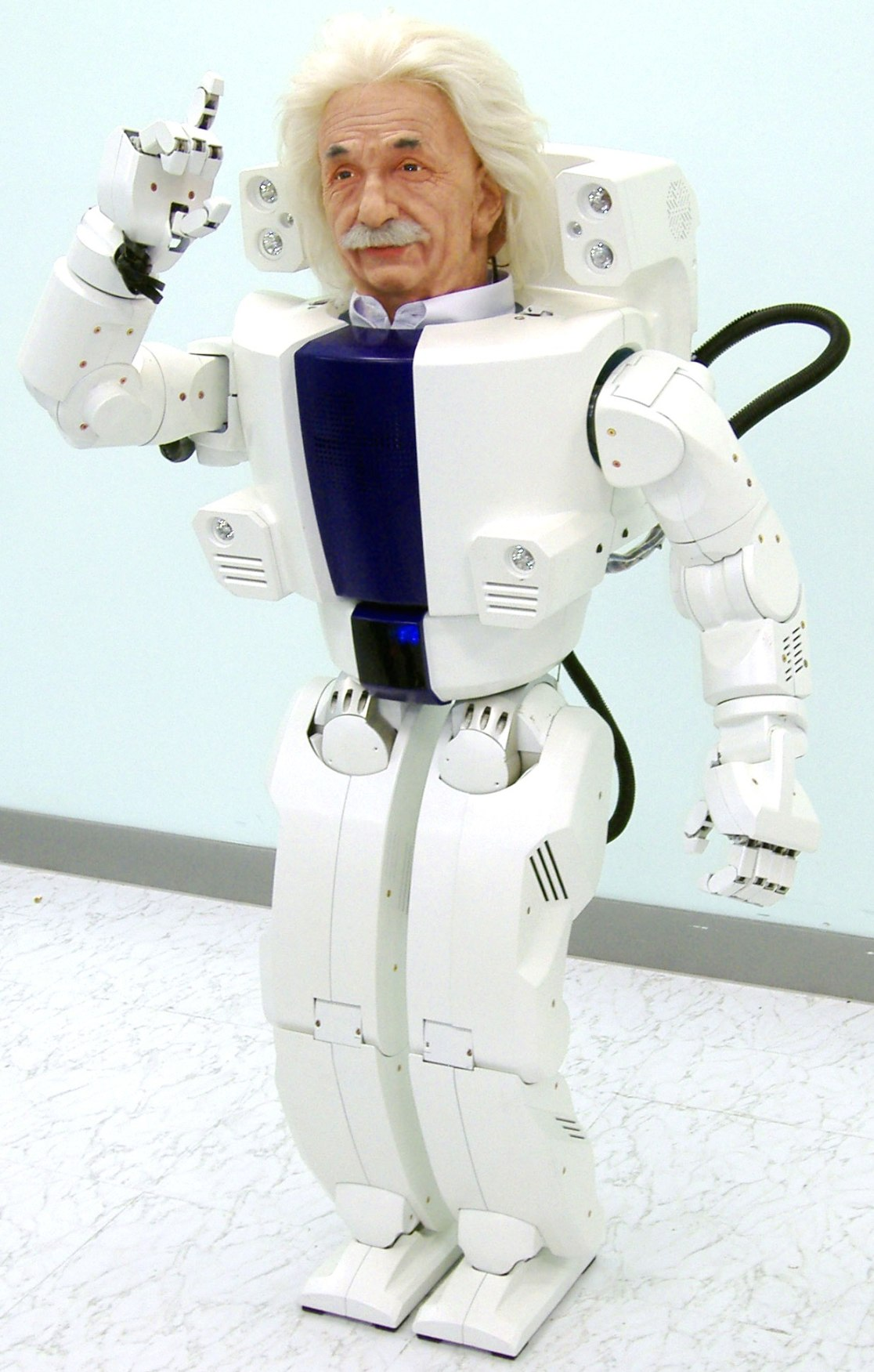 Photo by David Hanson